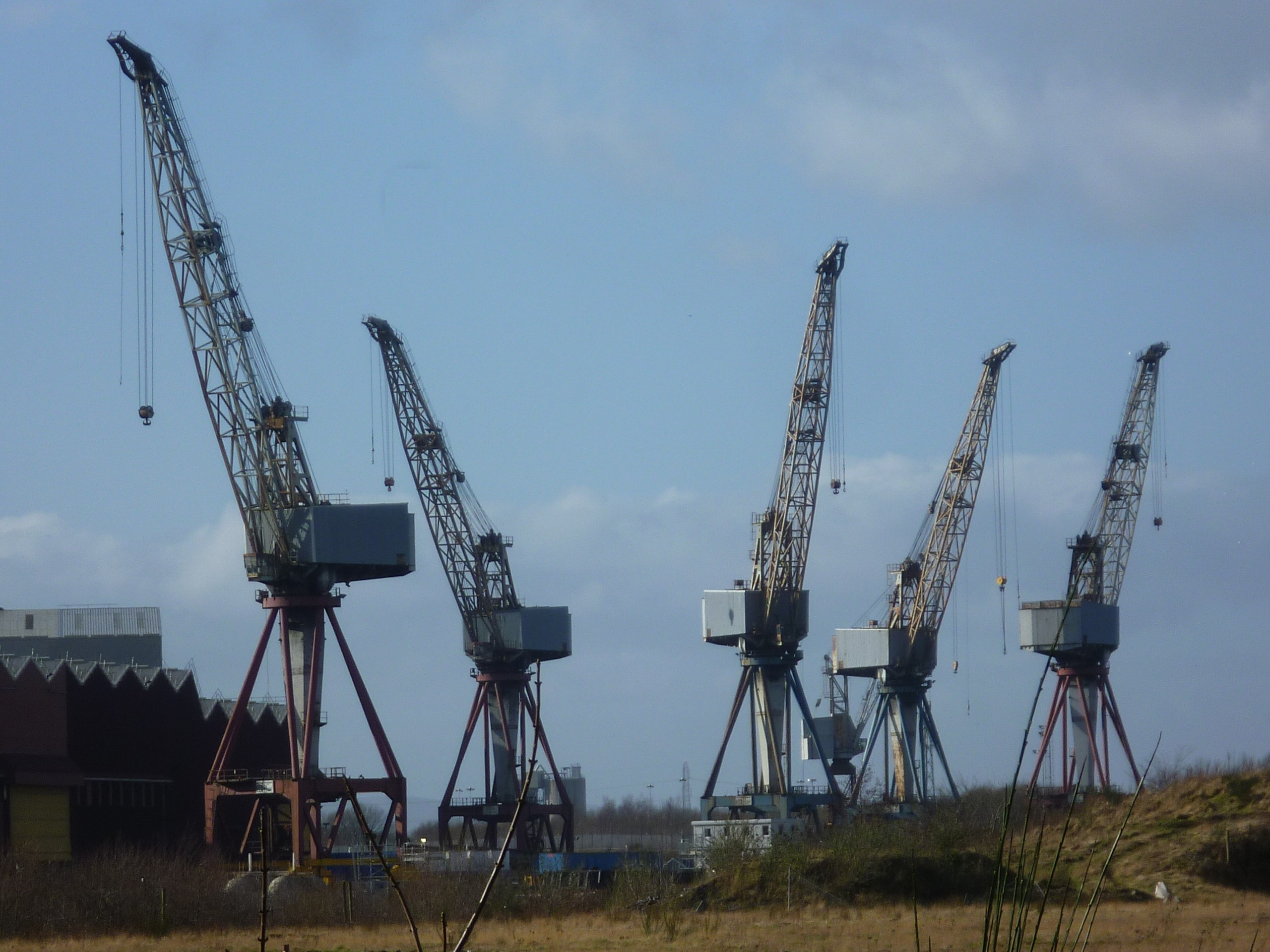 Cranes at the former Fairfield shipyard of Govan Shipbuilders Ltd. (from 1972), taken over by Kvaerner Govan Ltd. (1988-99) and currently owned by BAE Systems Marine.